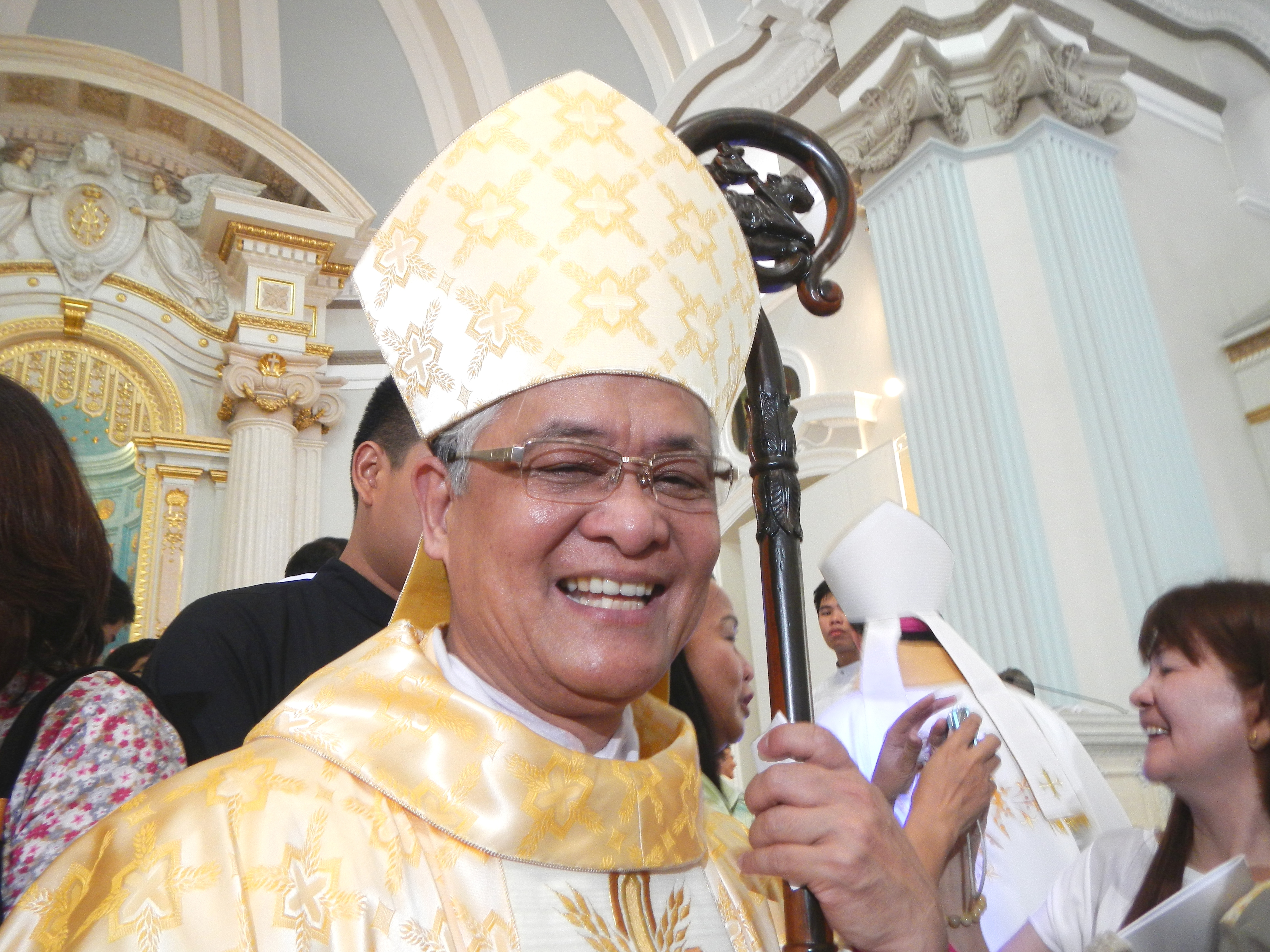 Florentino Lavarias Florentino Galang Lavarias, D.D The Most Reverend Florentino Lavarias D.D. Archbishop-elect of San Fernando is the fourth and current Metropolitan Archbishop of the Roman Catholic Archdiocese of San Fernando succeeded Paciano Aniceto as the Archbishop of San Fernando. The Rite of Liturgical Reception and Canonical Possession of Florentino Lavarias as the Archbishop was held on October 27, 2014 at the Metropolitan Cathedral of San Fernando by Papal Nuncio Archbishop Giuseppe Pinto Apostolic Nunciature to the Philippines List of ambassadors to the Philippines Holy See.